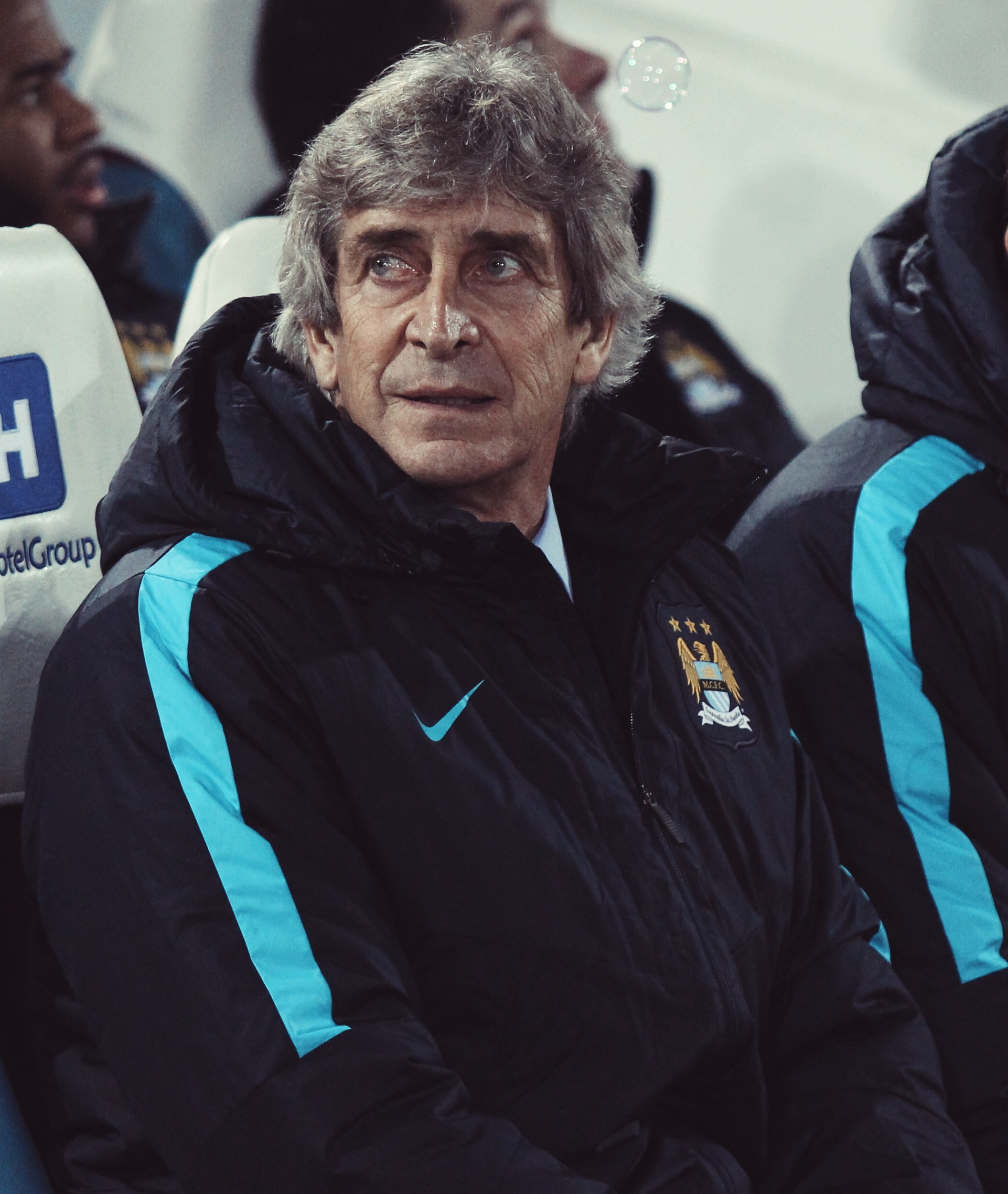 Manchester City manager Manuel Pellegrini before the game against West Ham.